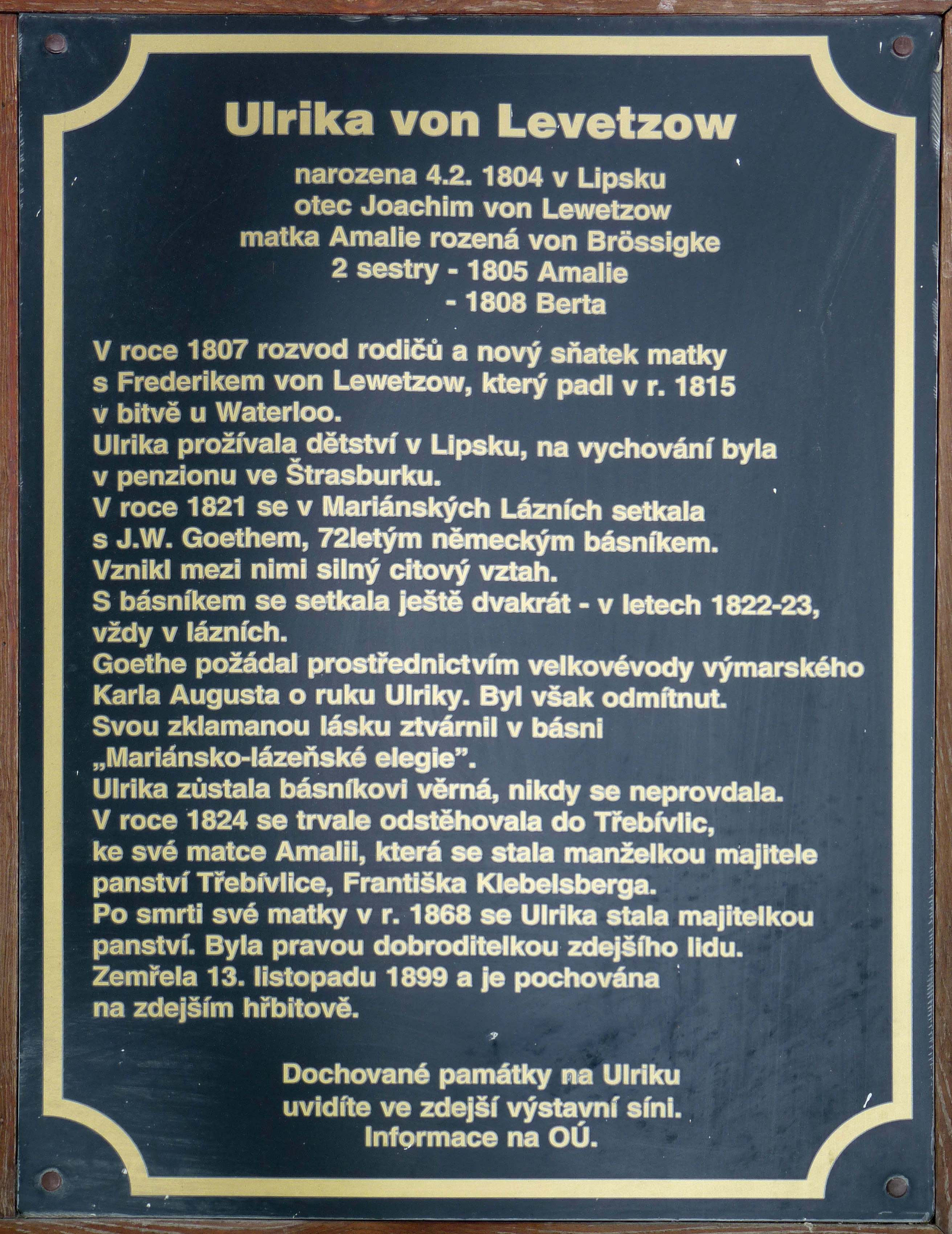 Information at the tomb of Ulrika von Levetzow in the cemetery at the Church of St Wenceslaus in the village of Třebívlice, Litoměřice District, Ústí nad Labem Region, Czech Republic.